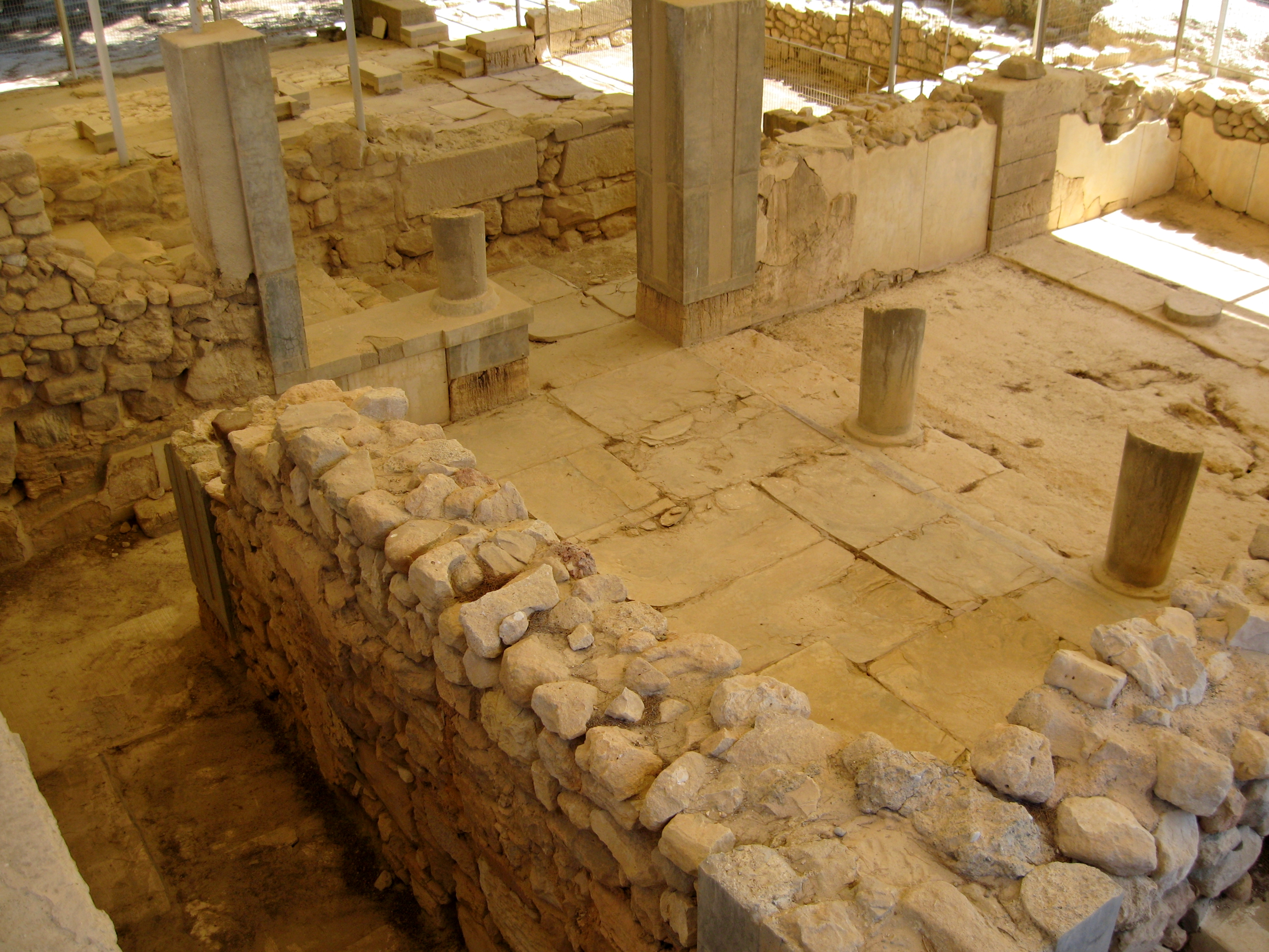 Phaistos, Crete, Greece